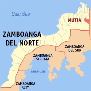 Map of the Zamboanga del Norte showing the location of Mutia